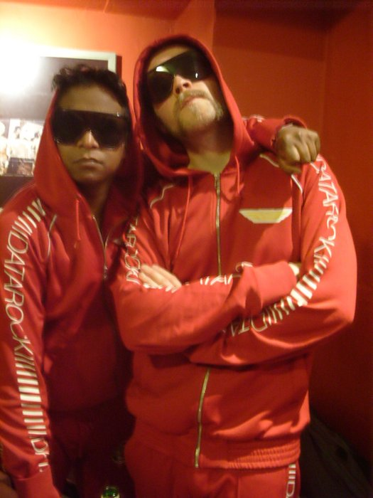 Datarock in Prague